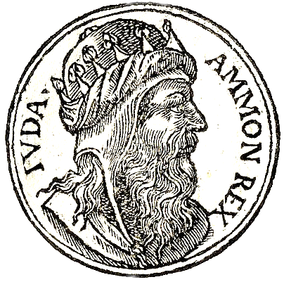 Amon-rex, king of Judah, who succeeded his father Manasseh of Judah